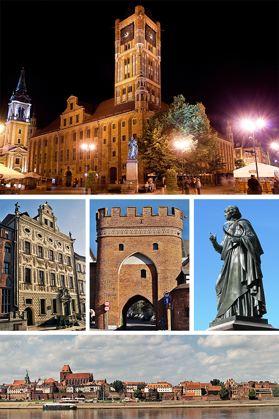 Collage of views of Torun, Poland